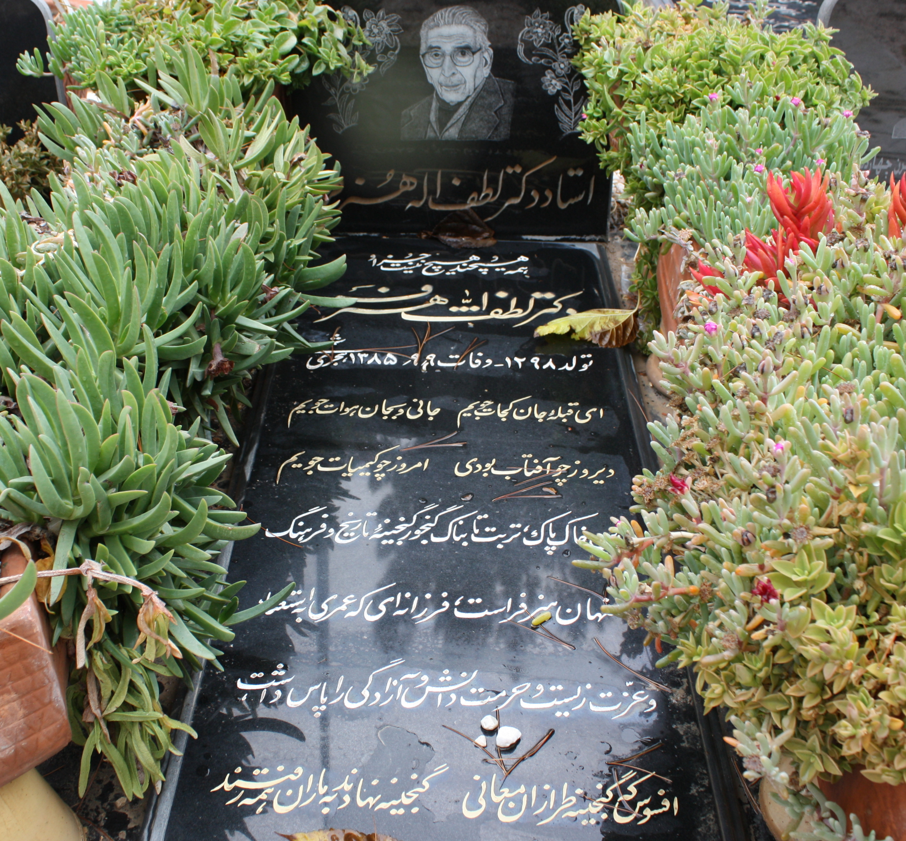 Lotfollah Honarfar tomb